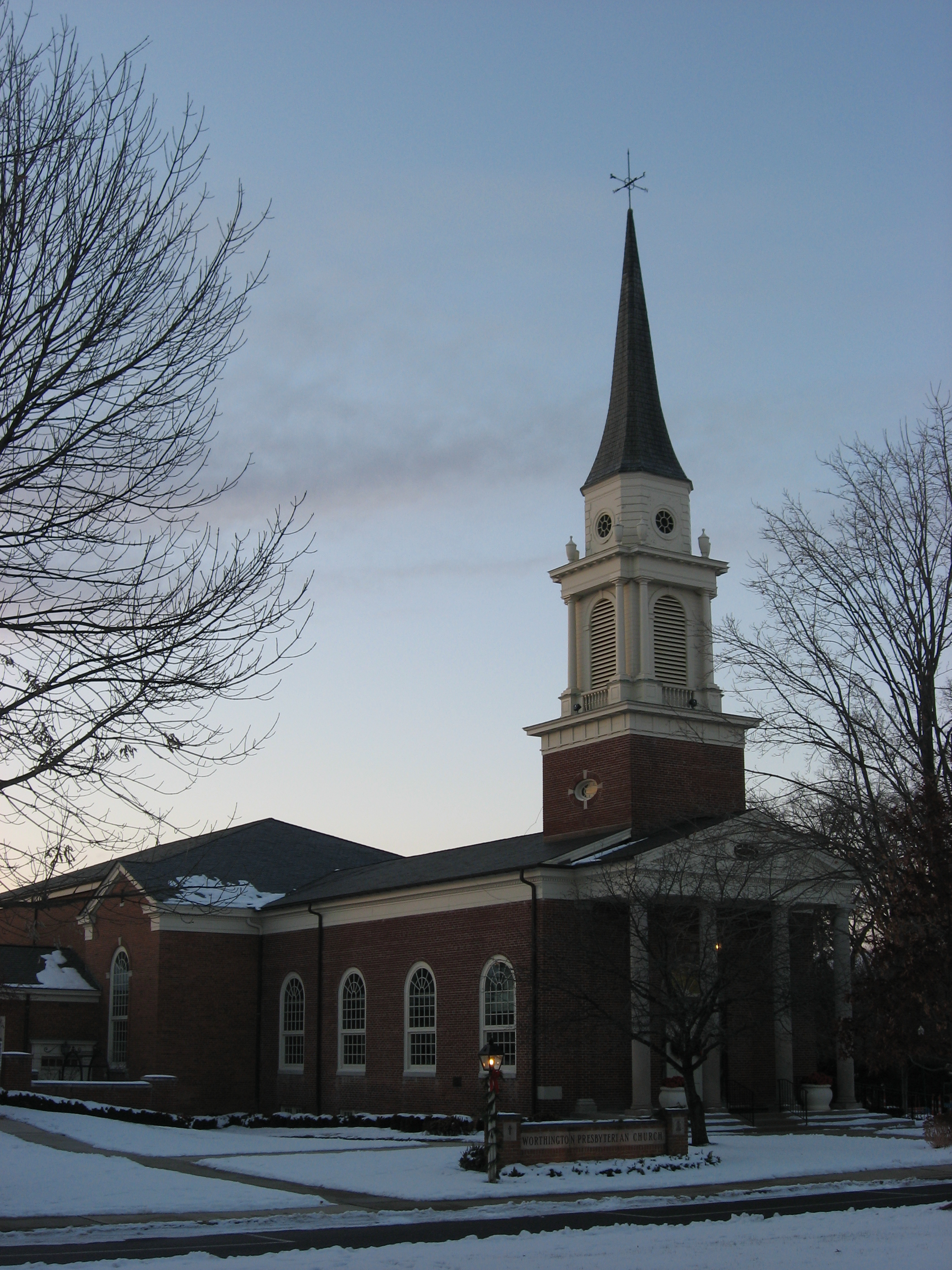 Front of Worthington Presbyterian Church, located at 733 High Street (U.S. Route 23) in Worthington, Ohio, United States. Built in 1927, it is listed on the National Register of Historic Places, and it is a part of a Register-listed historic district, the Worthington Historic District.